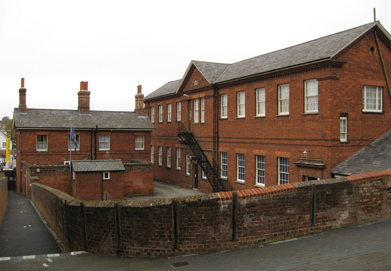 Hitchin British Schools Museum